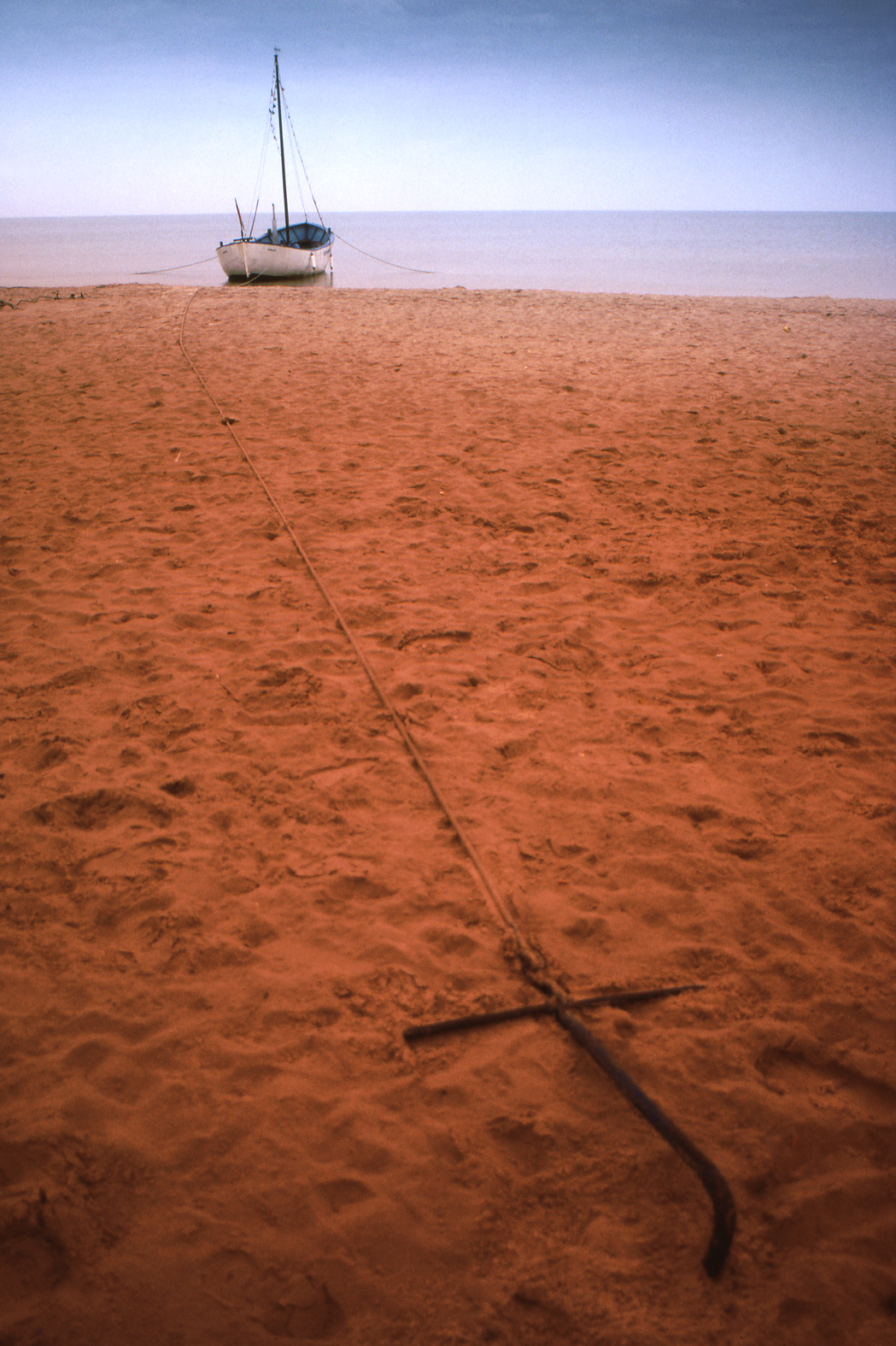 Boat with anchor, Cokin-flter T2 and B2; Ahlbeck, Mecklenburg-Western Pomerania, Germany